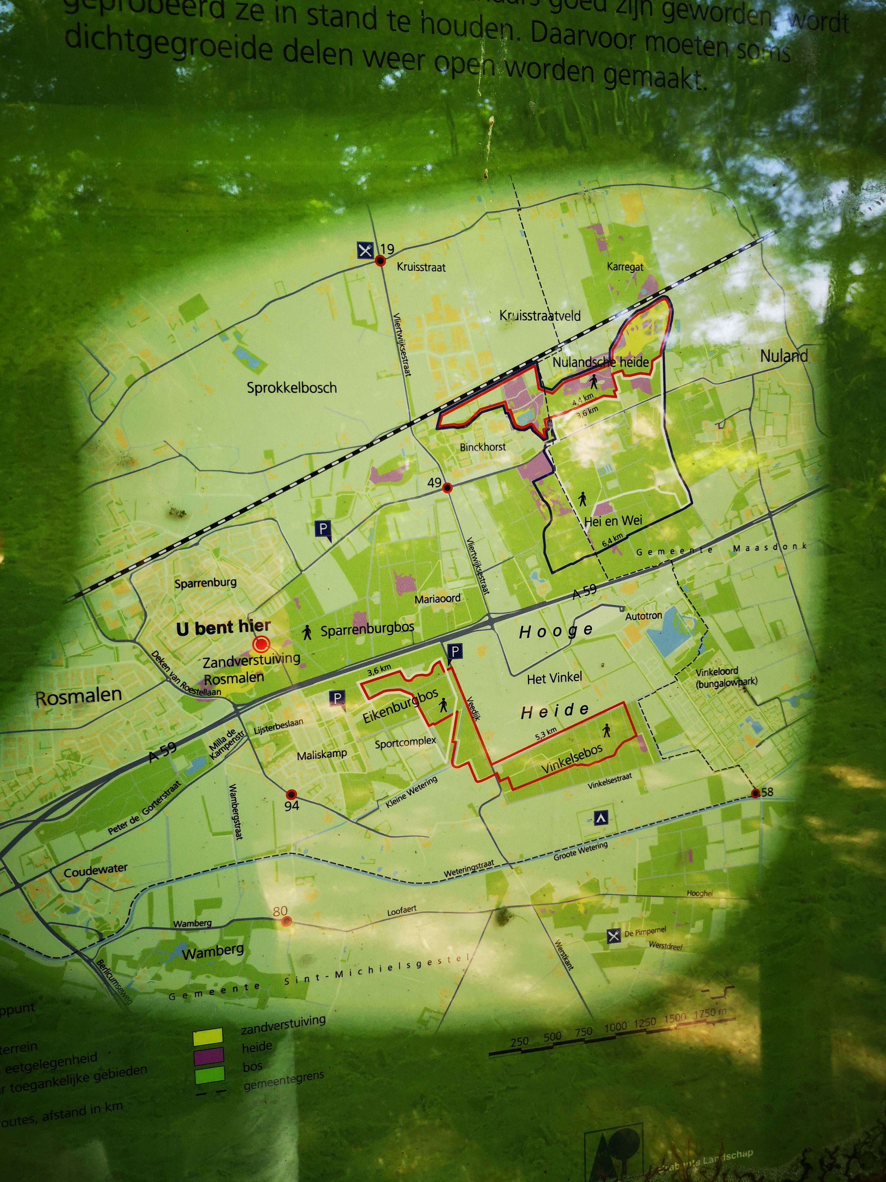 Afbeelding van de omgevingskaart van de zandverstuiving Rosmalen